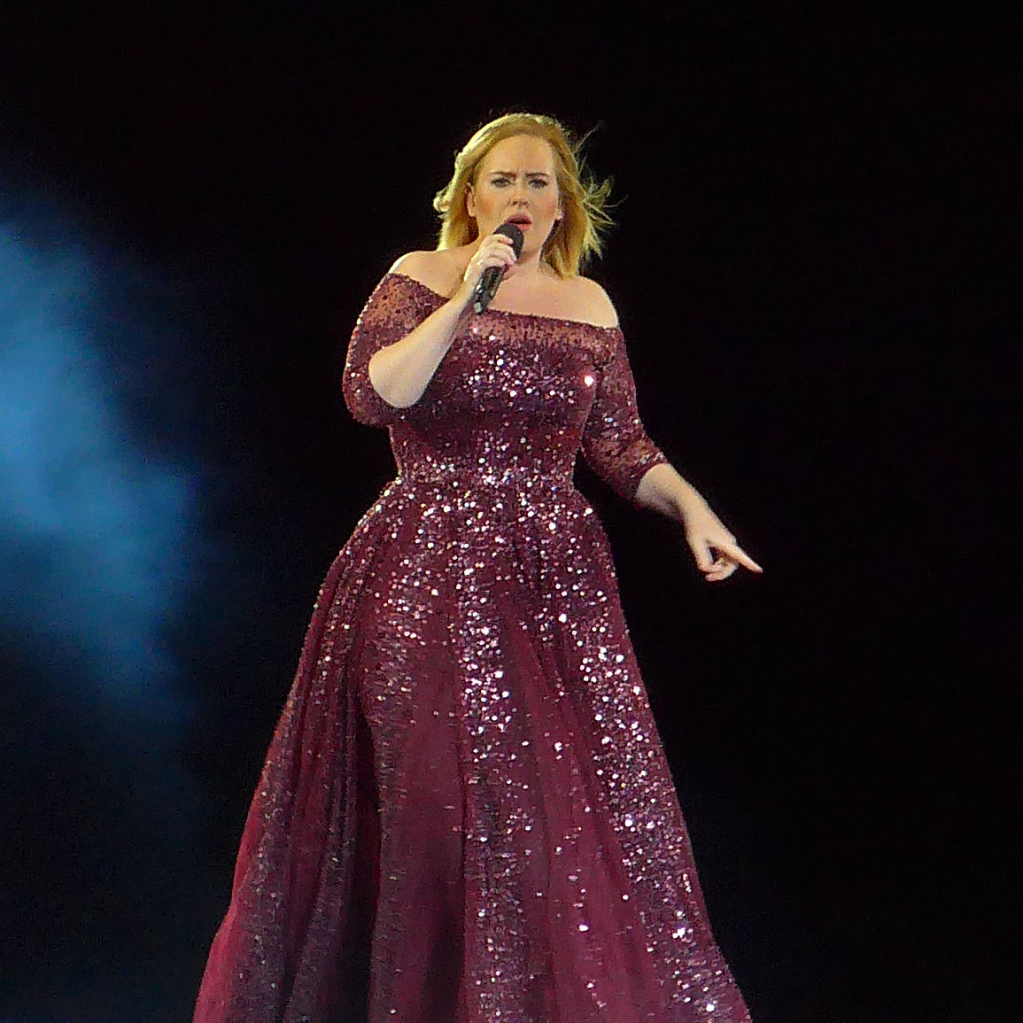 Adele at ADELAIDE Oval.